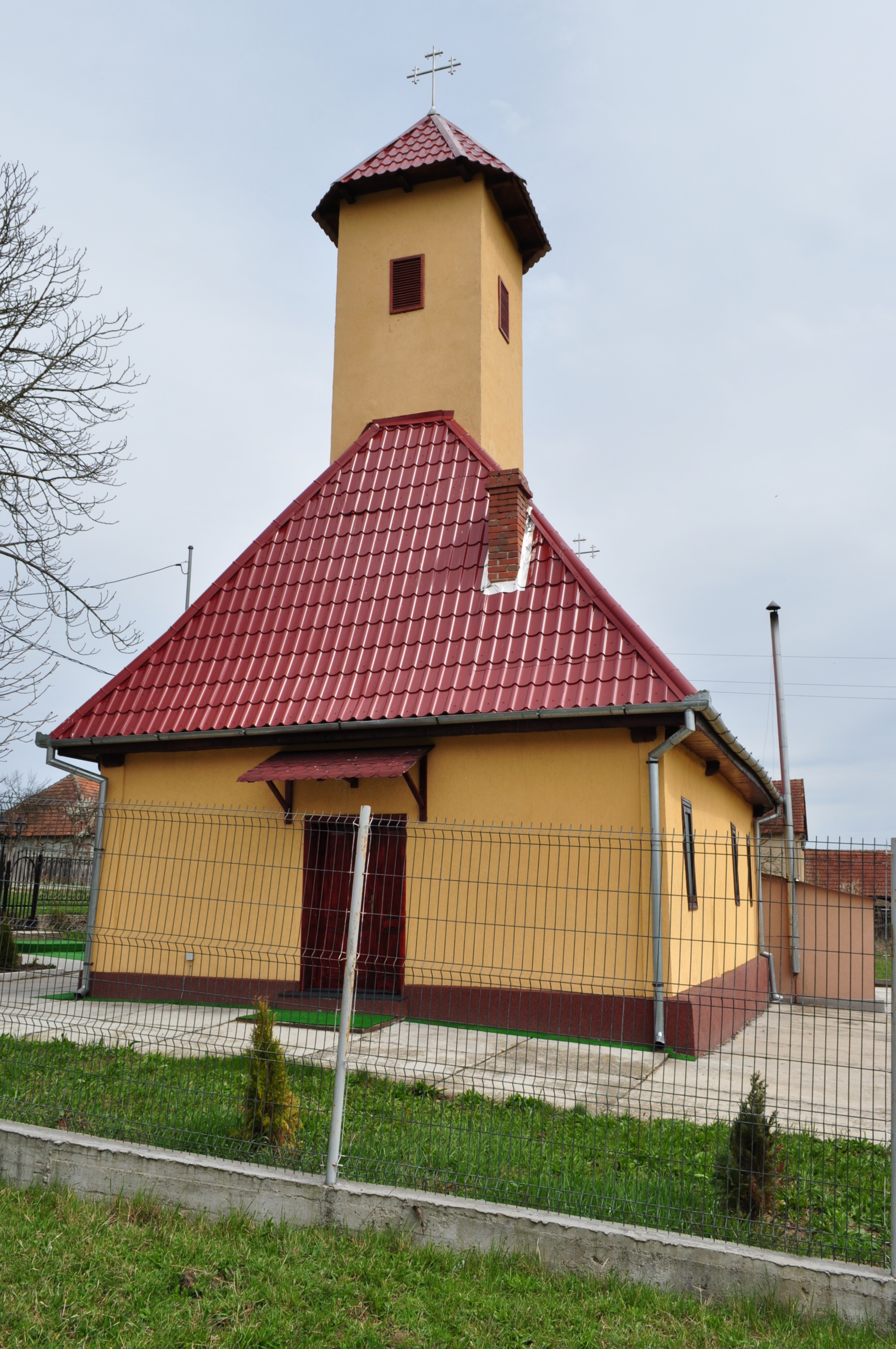 The wooden church in Zăbalț, Arad county, Romania